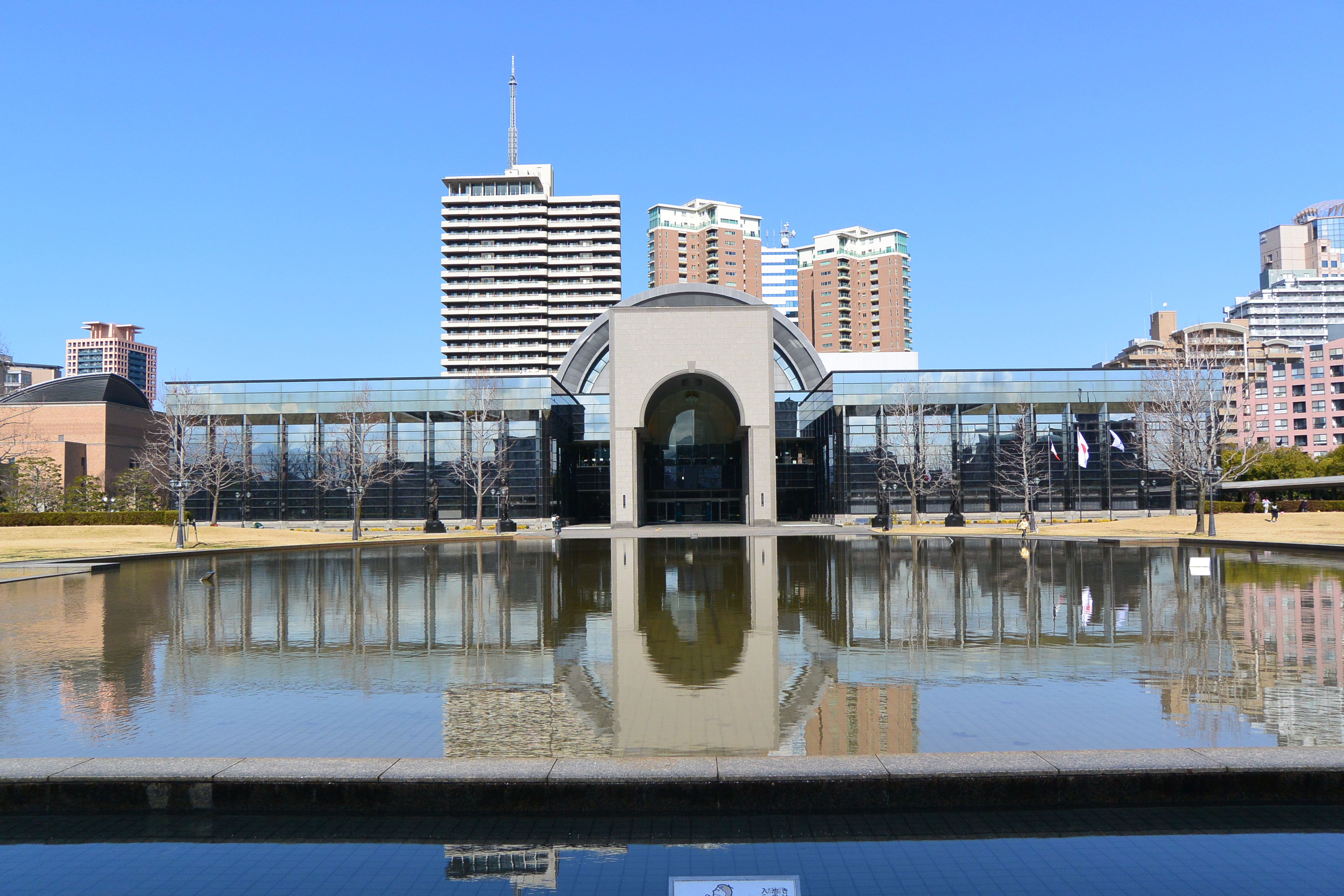 Front view of Fukuoka city museum kyusyu Japan